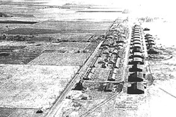 Chanute Field, Illinois, 1918